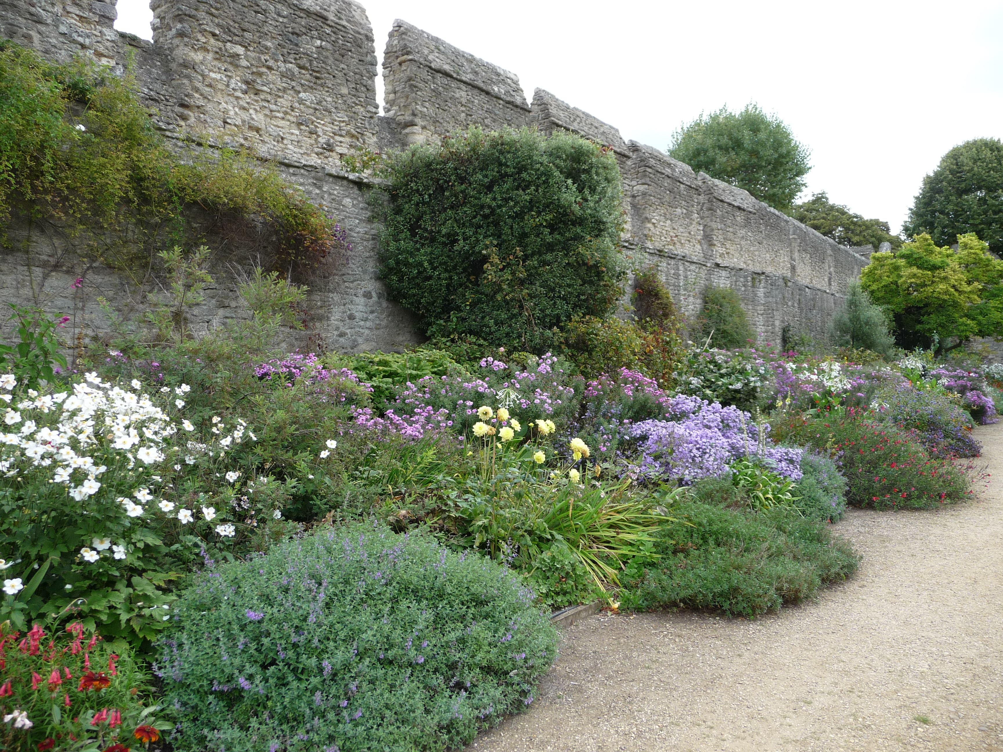 An herbaceous border beside the city wall in New College, Oxford